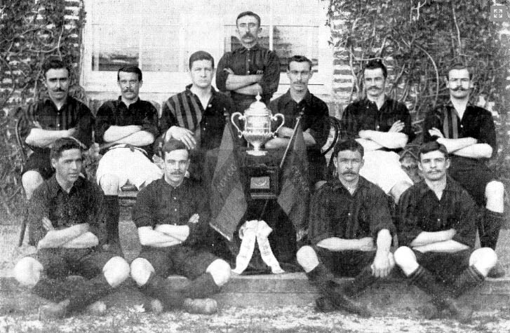 Football team of CURCC, Uruguayan league champions, posing with the trophy.